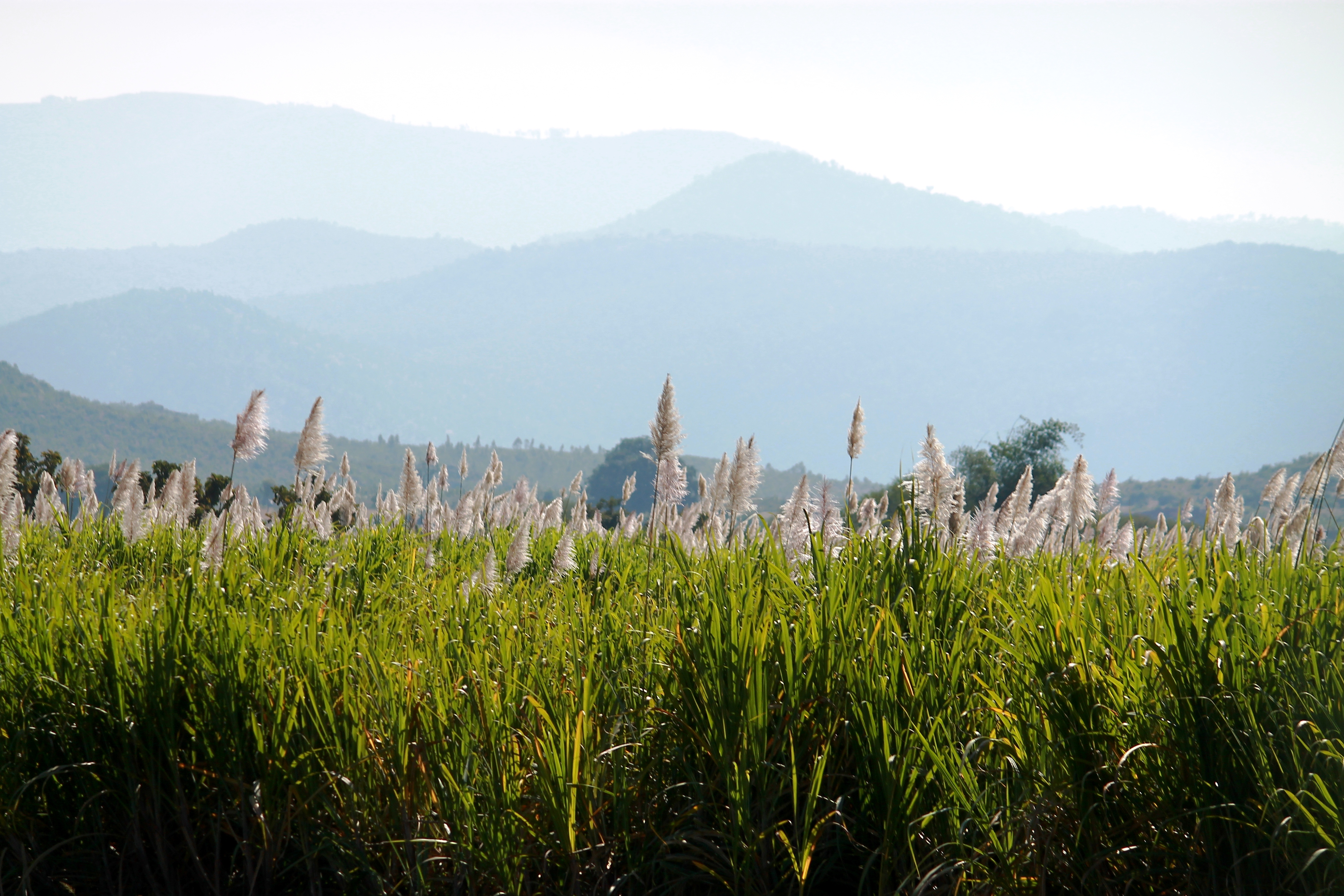 The tiger territory beyond the hills